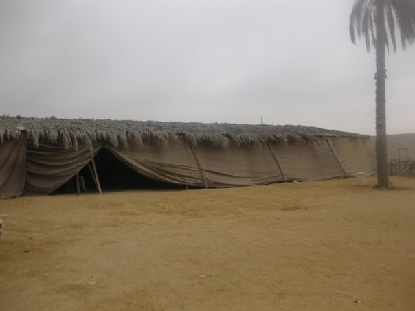 negev, Tourism in Israel